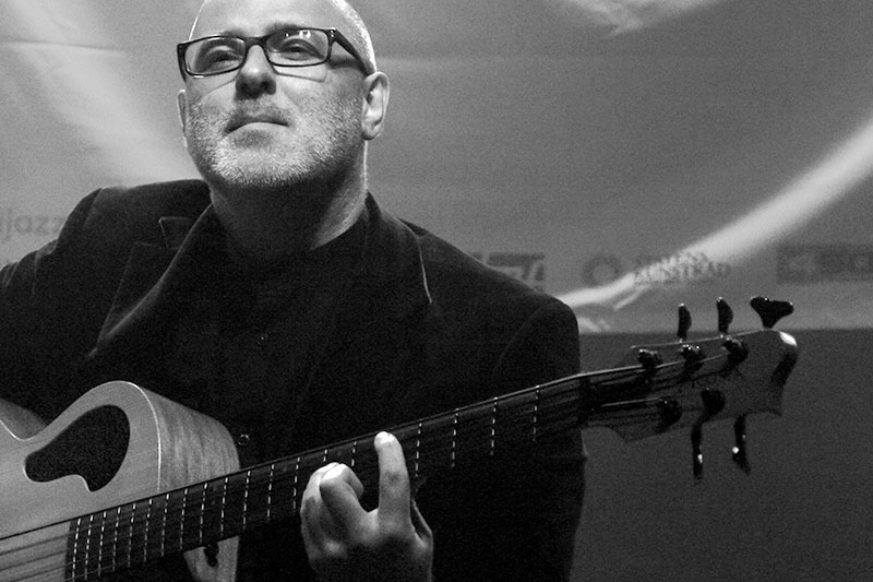 Skuli Sverrisson in Aarhus, Denmark 2012